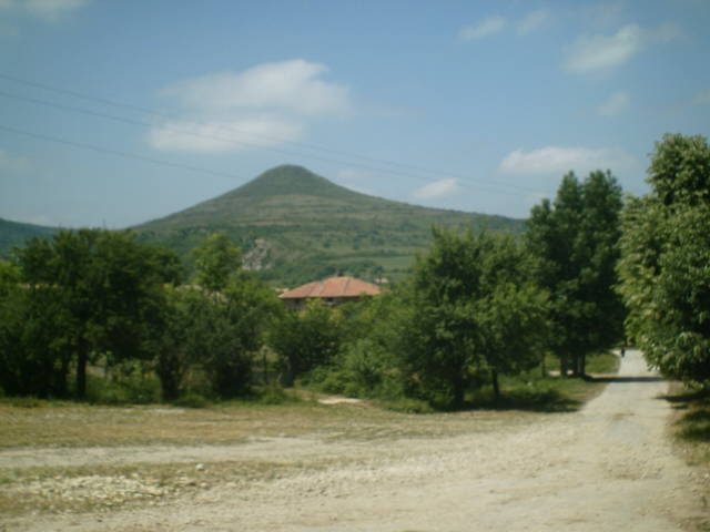 The village and hills of Mogila — in the Kaspichan Municipality of Shumen Province, northeastern Bulgaria.